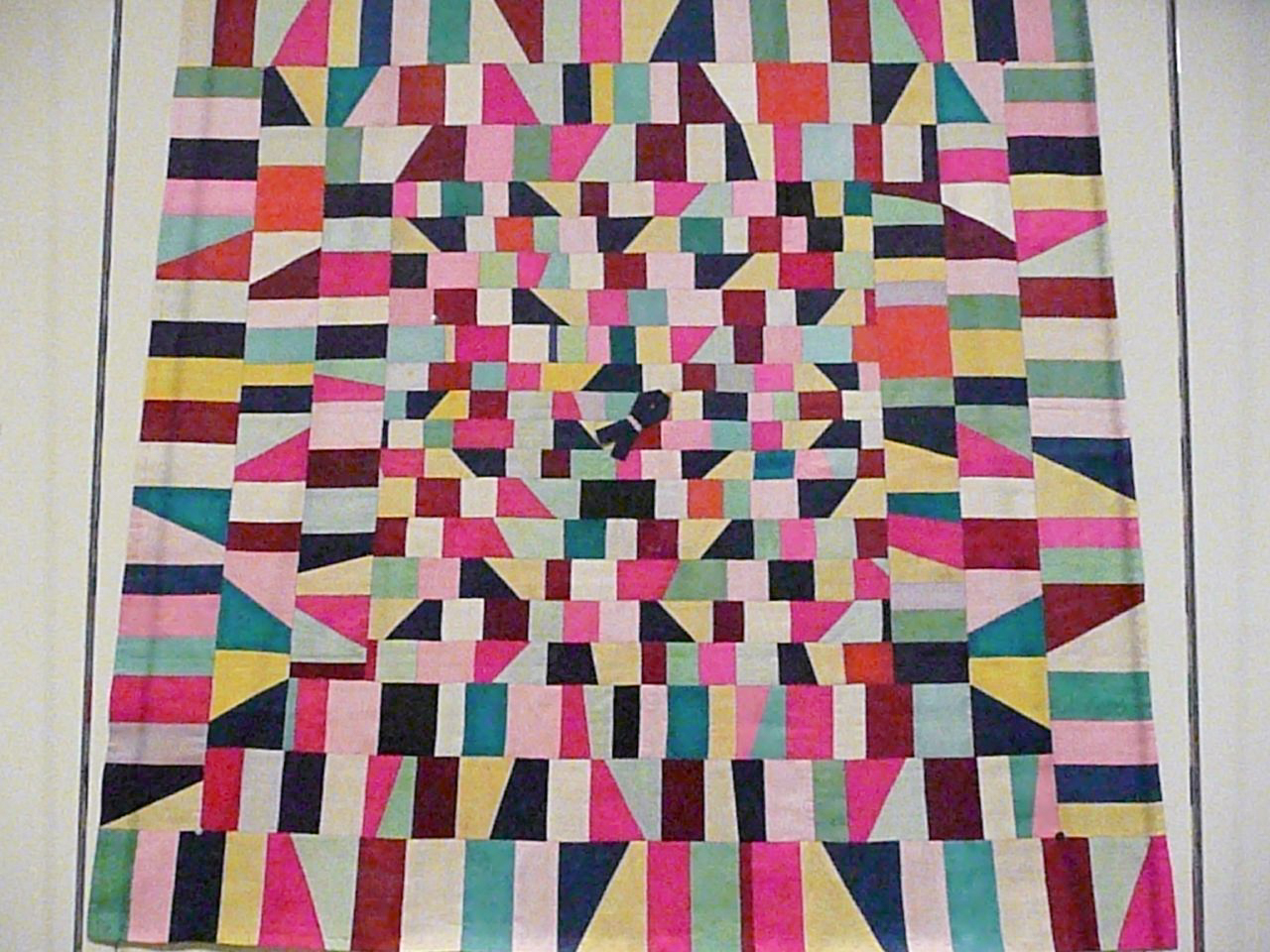 Bojagi (보자기) (Korean wrapping cloth) from 1950s-1960s, from the collection of the Asian Art Museum of San Francisco. More information.